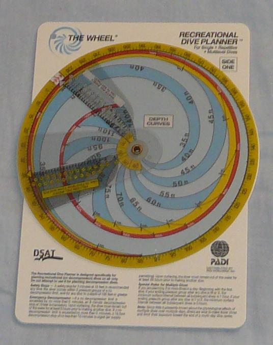 Photograph of the PADI Recreational Dive Planner